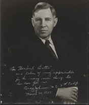 former congressman J. Leroy Johnson of California.